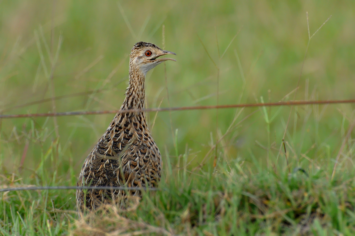 Nothura maculosa subsp. maculosa photographed in Rio Grande do Sul, Brazil, in March 2011.